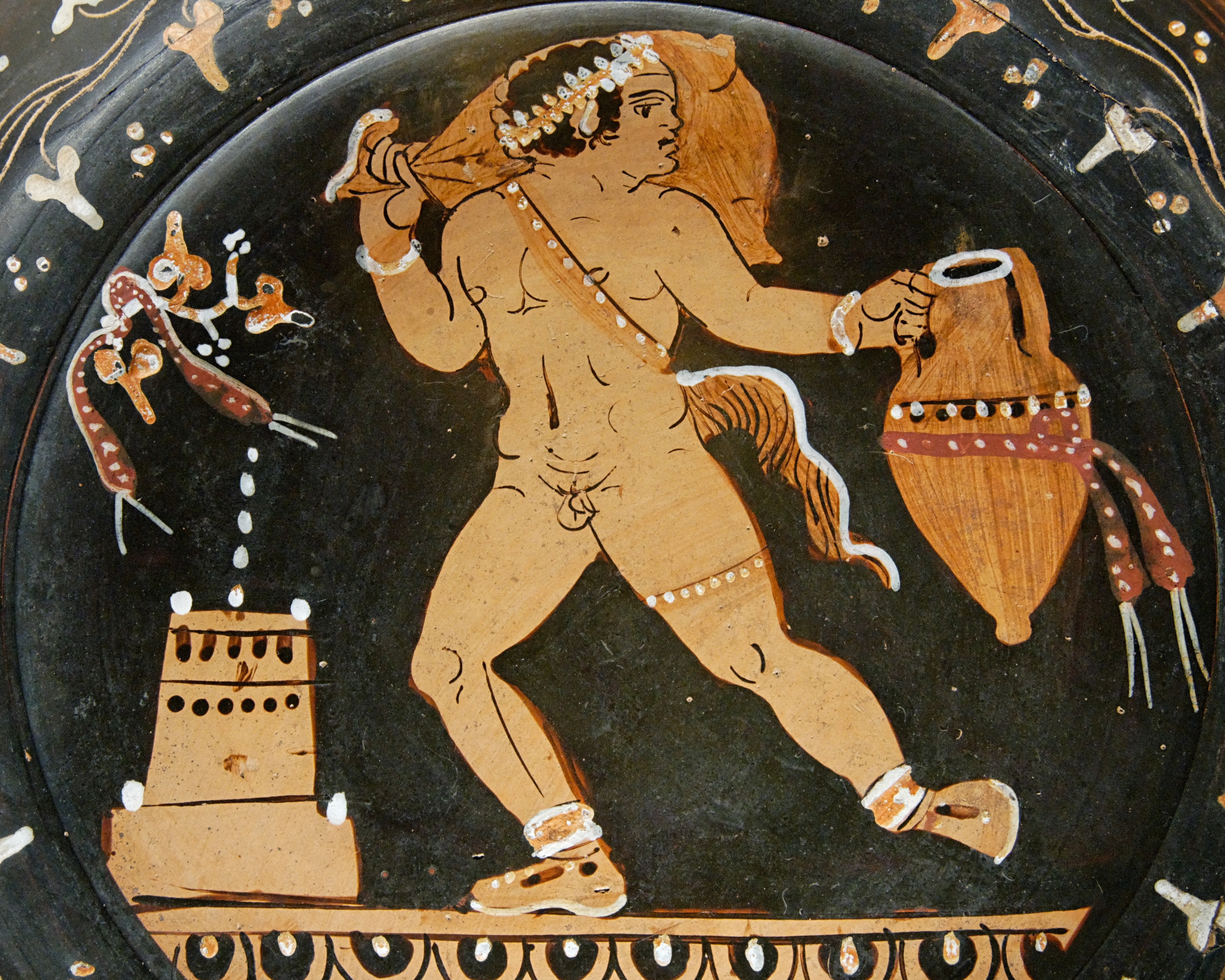 Silenus/Satyr holding a wineskin and an amphora. Detail of the tondo of a Paestan red-figure footless kylix, ca. 360–350 BC.